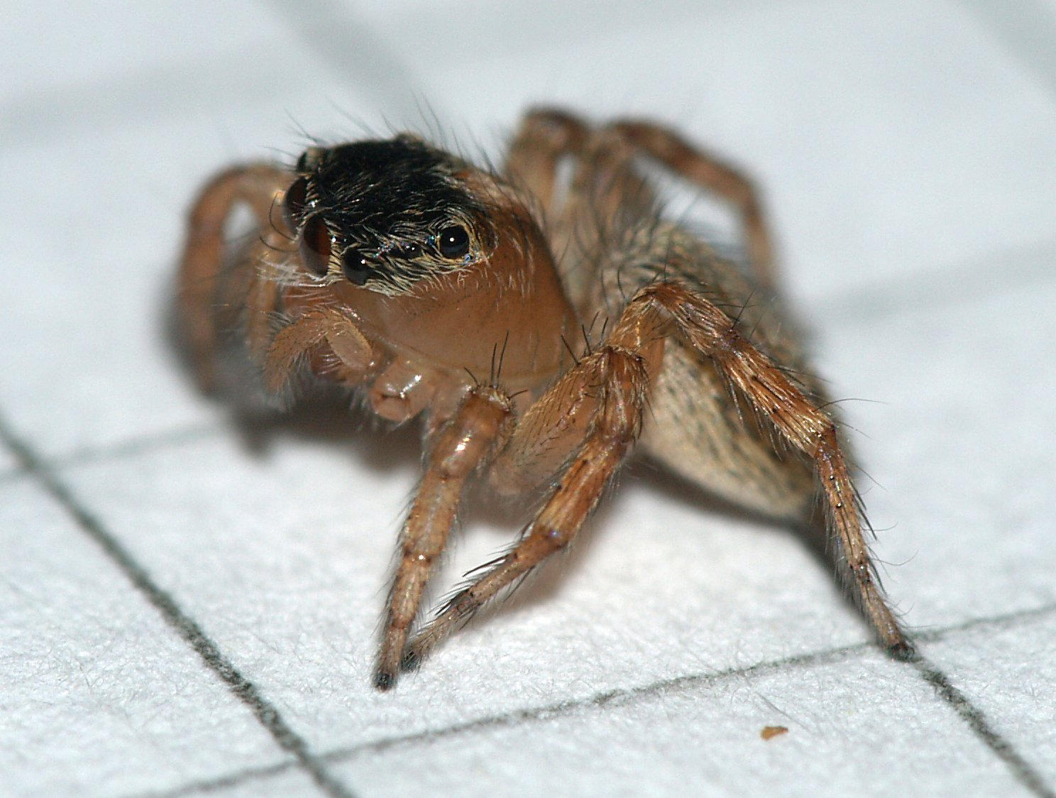 female Saitis barbipes from Menton, French Riviera (43°46′32″N 07°30′02″E / 43.77556°N 7.50056°E). One square on paper has a side length of 5 mm.